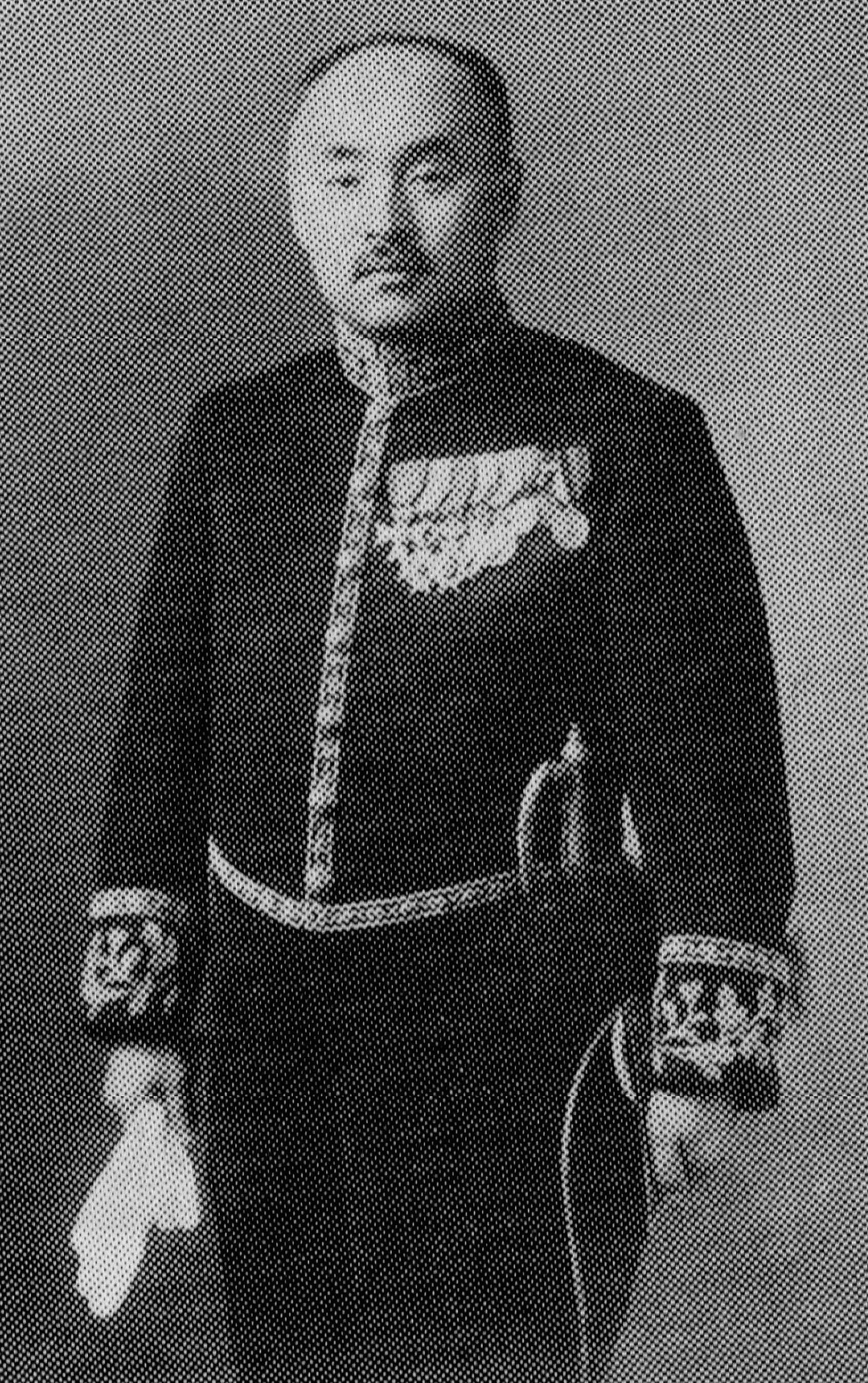 Tokuzo Akiyama, the chef to the Emperor of Japan at the age of 44